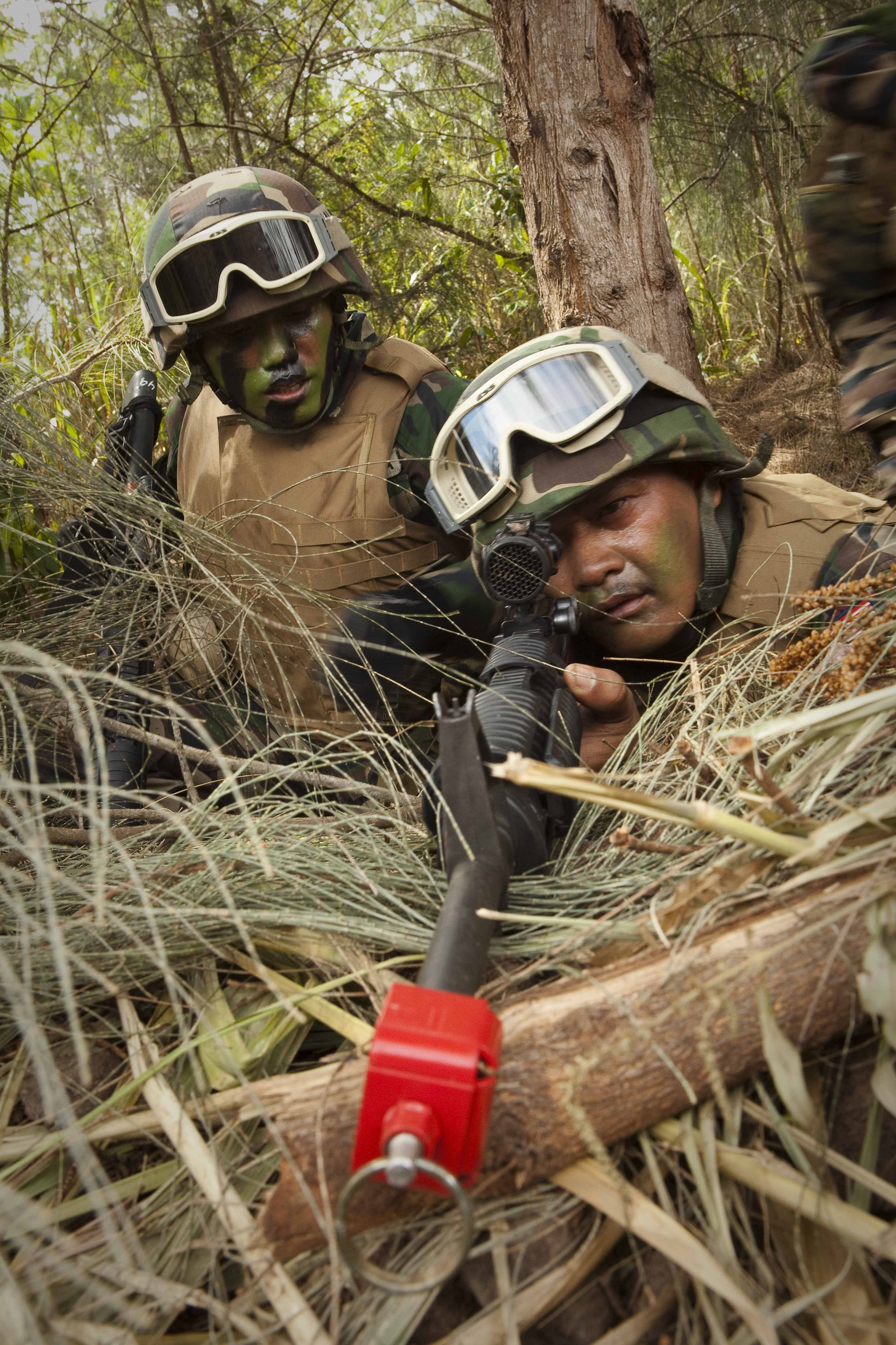 A Malaysian paratrooper with 9 Royal Malay Regiment, Malaysian Army, provides security during a helicopter raid on an improvised explosive device factory with U.S. Marines from Company E, 2nd Battalion, 3rd Marine Regiment, at Kahuku Training Area, Hawaii, July 27. The raid was the action subsequent to a noncombatant evacuation operation executed by 2/3 Marines and coalition forces at Marine Corps Training Area Bellows, Hawaii, July 26. Both operations were conducted as part of interoperability training between coalition forces during the multi-national Exercise Rim of the Pacific 2010.